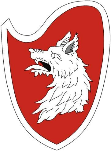 Small Coat of Arms of Balsic Dynasty